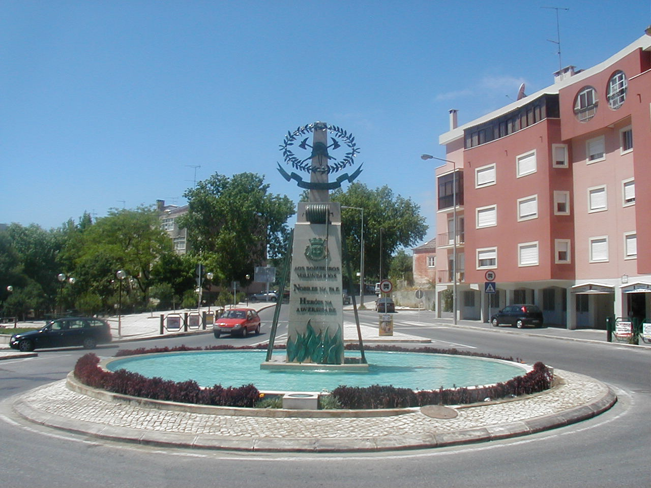 Sculpture by Carlos Botelho in Belas - Sintra - Portugal.